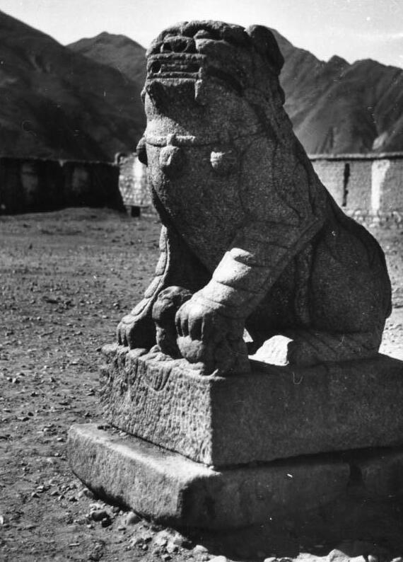 Tibetan stone Snow Lion statue, in Lhasa - Tibet. Photograph by Ernst Schäfer, on a 1938 Tibetan Expedition